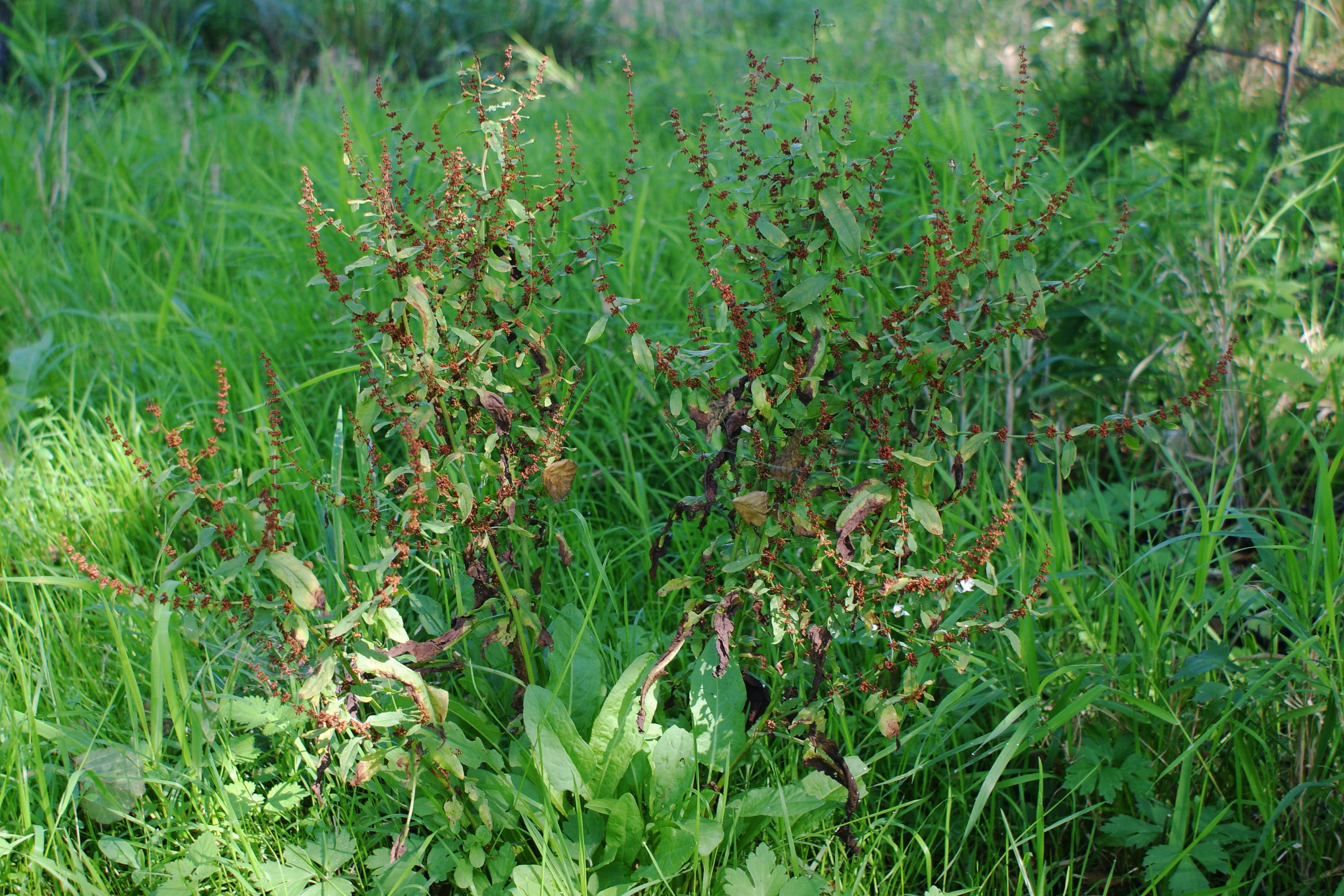 Rumex conglomeratus